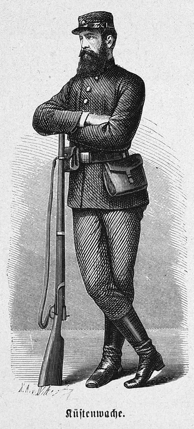 no caption